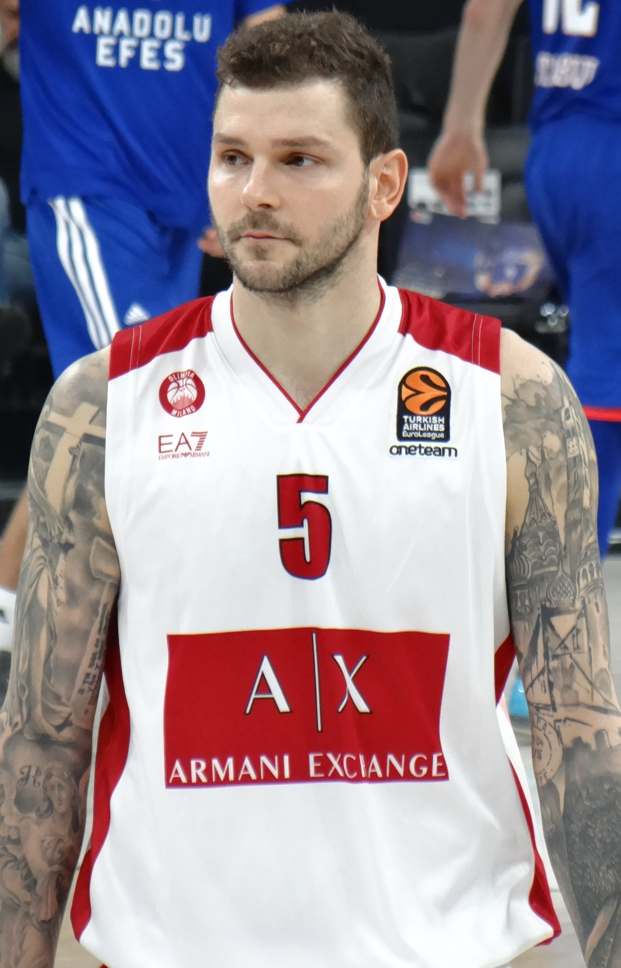 Vladimir Micov 5 AX Armani Exchange Olimpia Milan 20171130